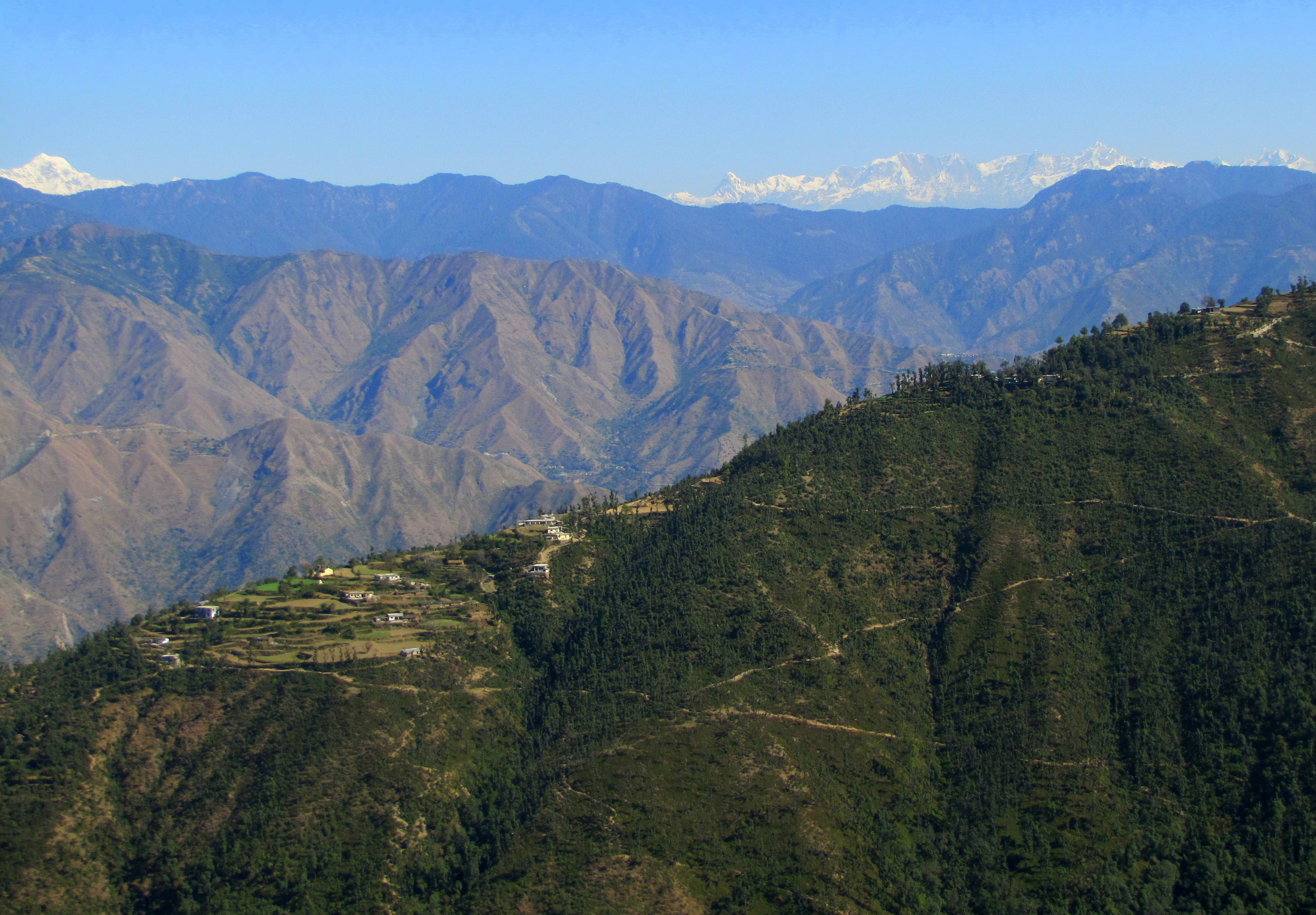 Garhwal Himal from Camels Back